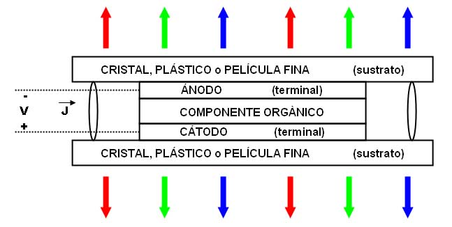 OLED structure; spanish text